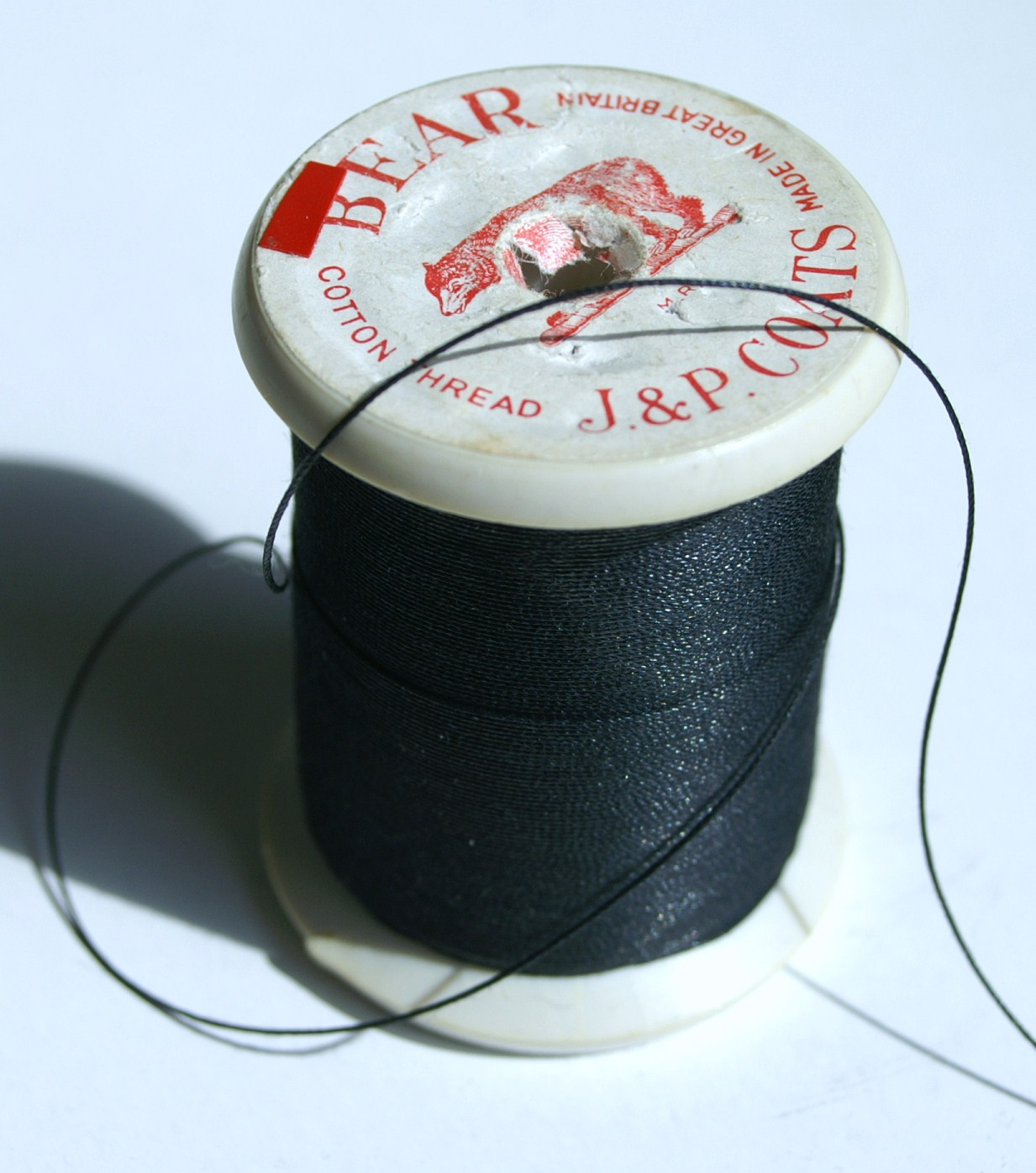 A roll of J.&P. Coats Bear cotton thread.